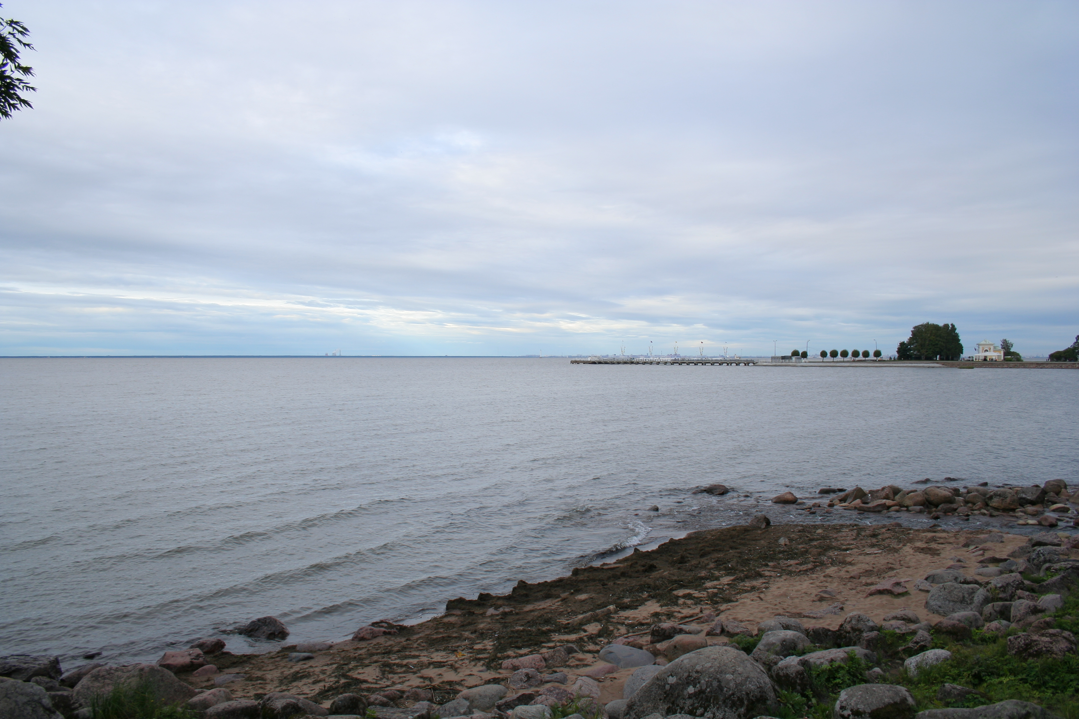 Lower Park in Peterhof, Saint Petersburg. View on the Neva Bay.